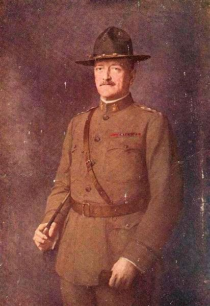 Portrait of John J. Pershing by french painter Léon Hornecker (1864-1924), oil on canvas 1903